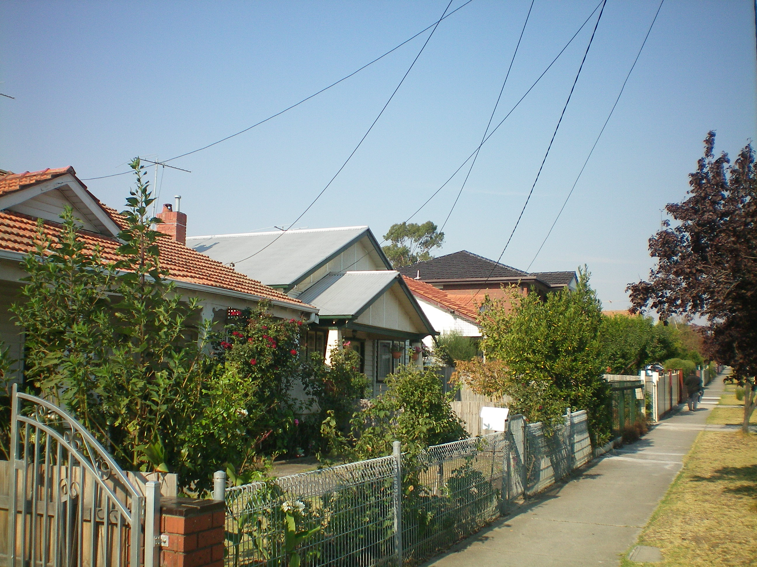 Typical street in Preston, Victoria.